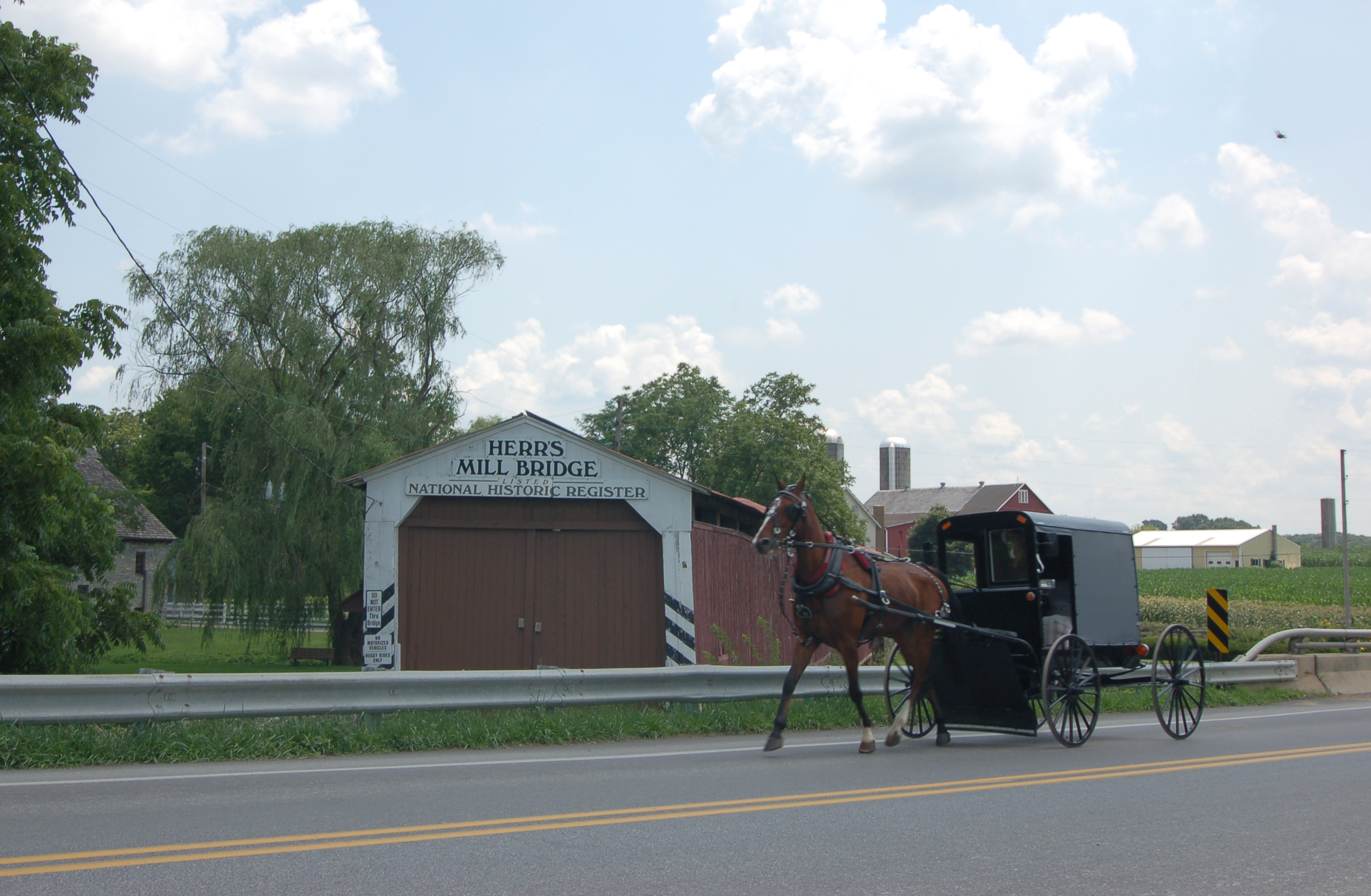 A photograph of the Herr's Mill Covered Bridge showing the bridge and an Amish horse and buggy. The bridge is located in Lancaster County, Pennsylvania.